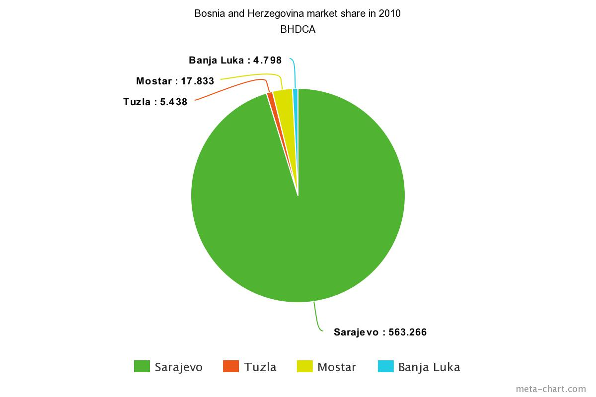 Bosnia and Herzegovina airports market share in 2010